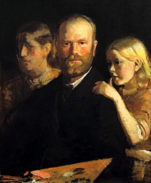 Selfportrait with Anna and Helga